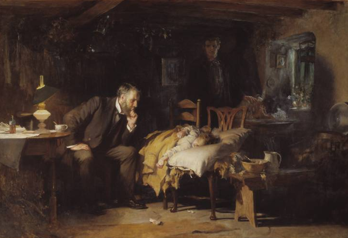 Physician watching over a sick child, painting by Fildes.